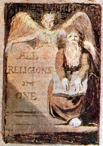 Alternatly coloured title page for All Religions are One